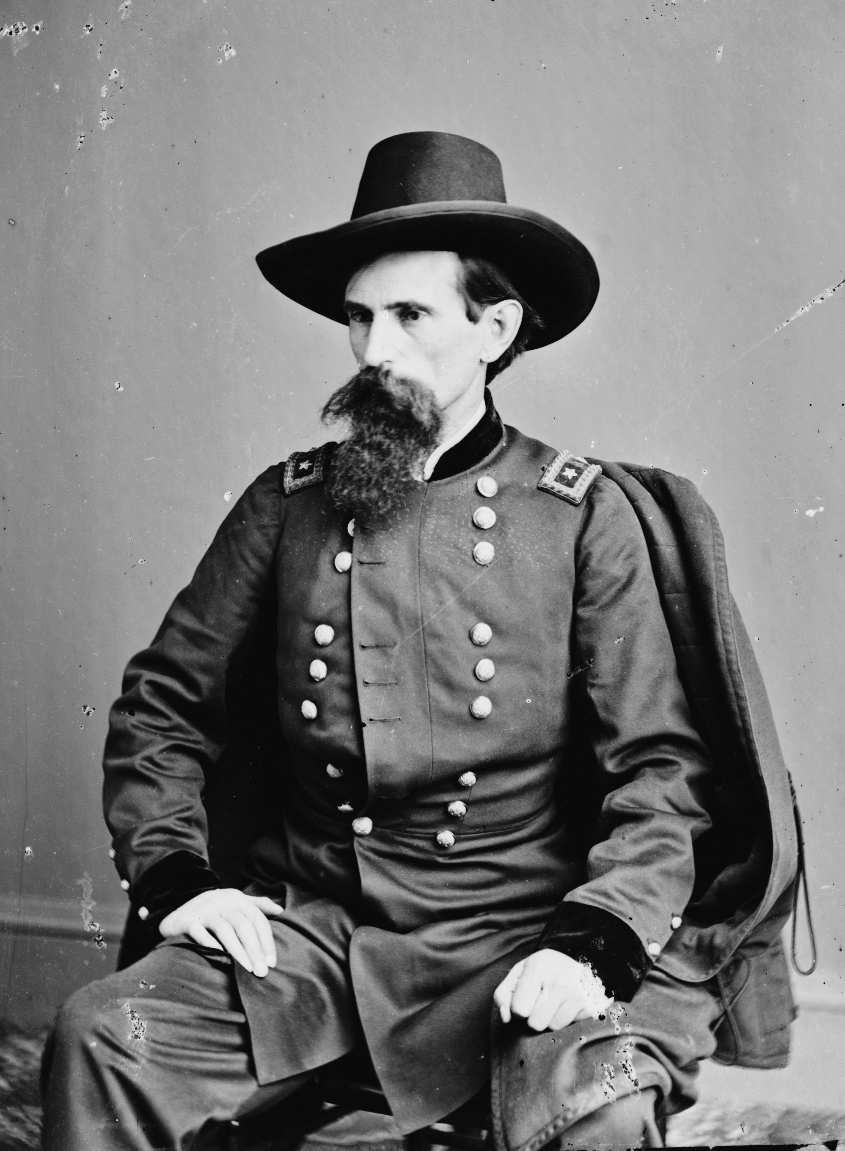 Lew Wallace. Library of Congress description: "Gen. Lew Wallace"